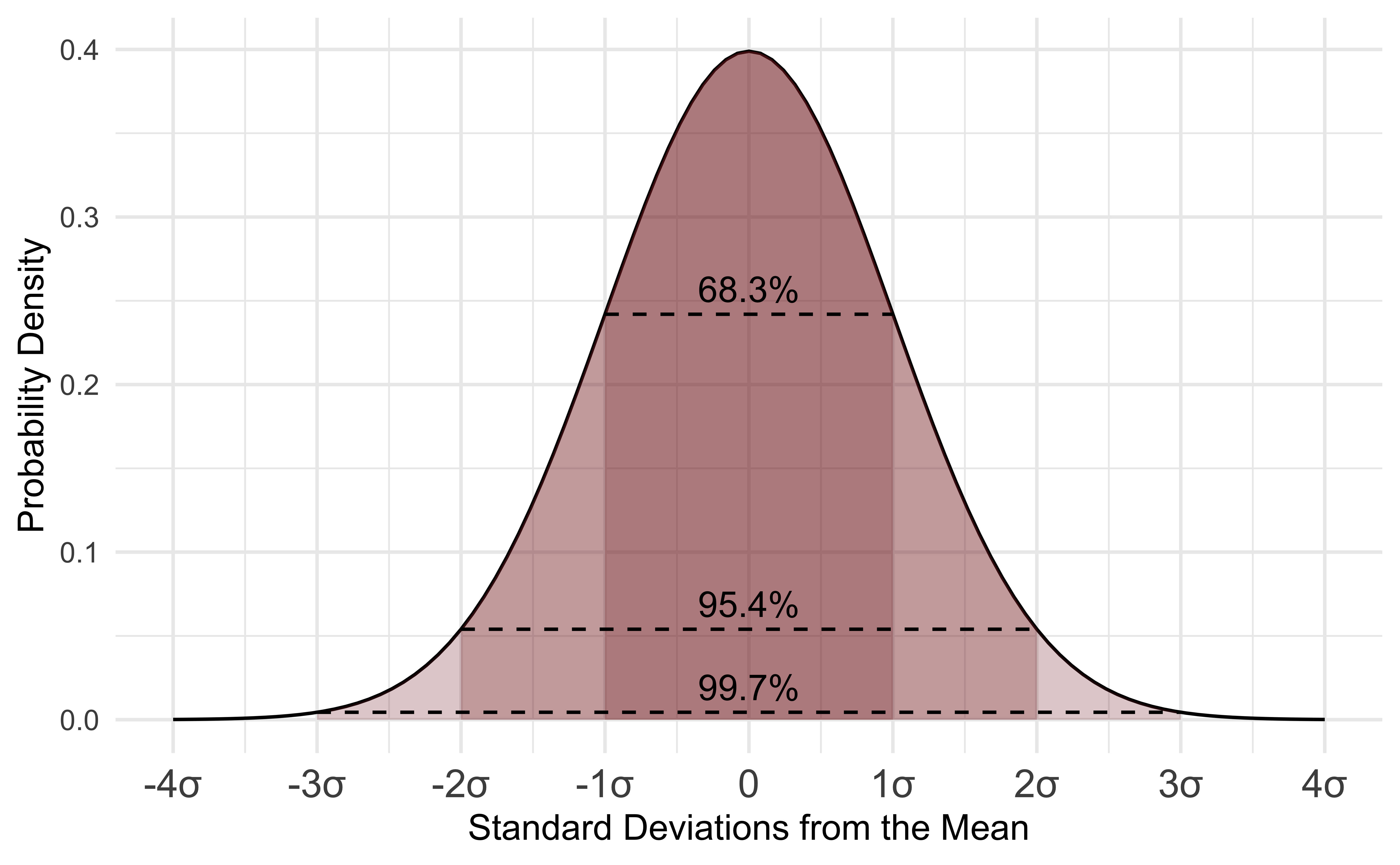 The Standard Normal Probability Distribution with shaded regions